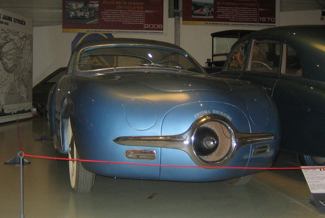 1953 Socéma Grégoire gas turbine-driven prototype.